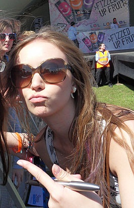 British actress Tamaryn Payne.